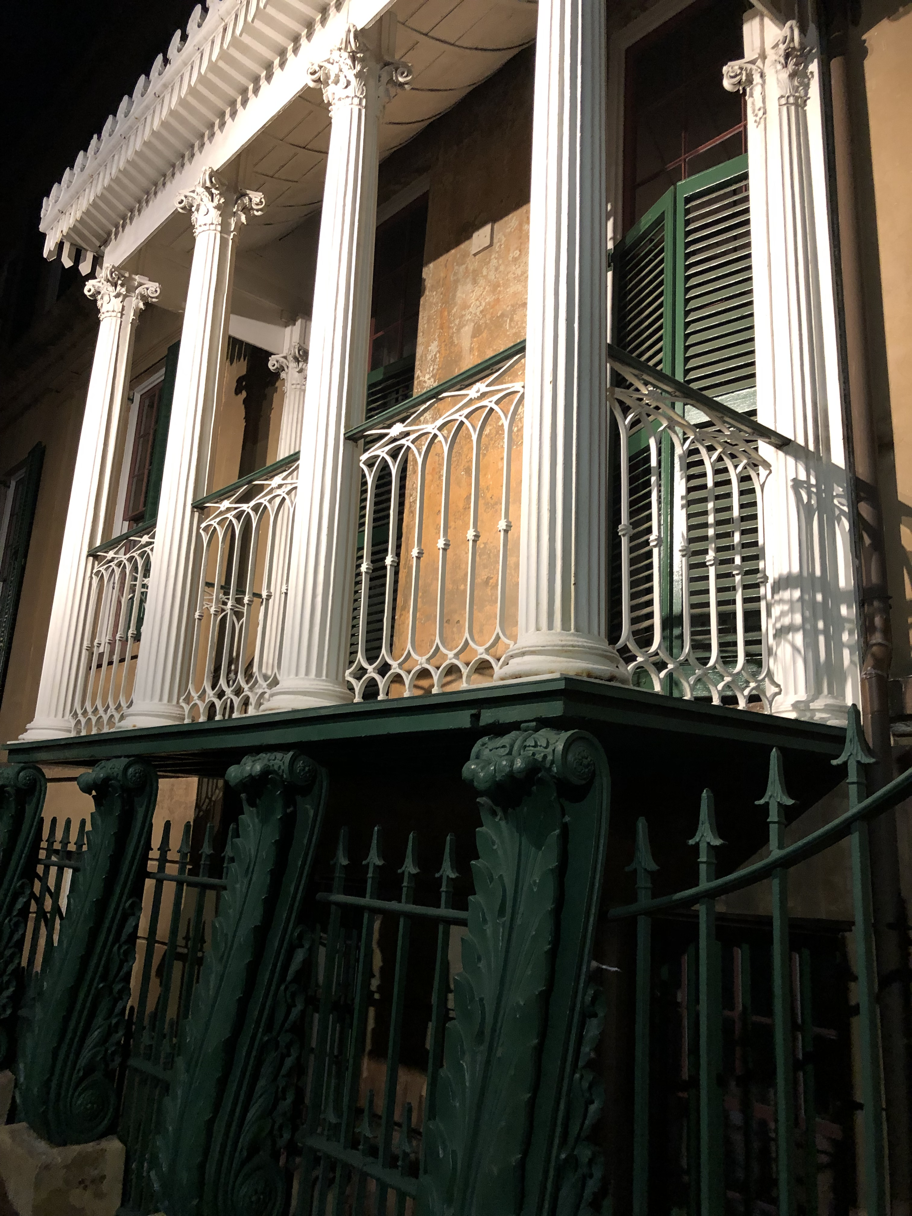 This is a photo of the side veranda featuring acanthus leaf supports at the Owens-Thomas House in Savannah, Georgia. General Lafayette addressed the citizens of Savannah on his visit in 1825 from this veranda.